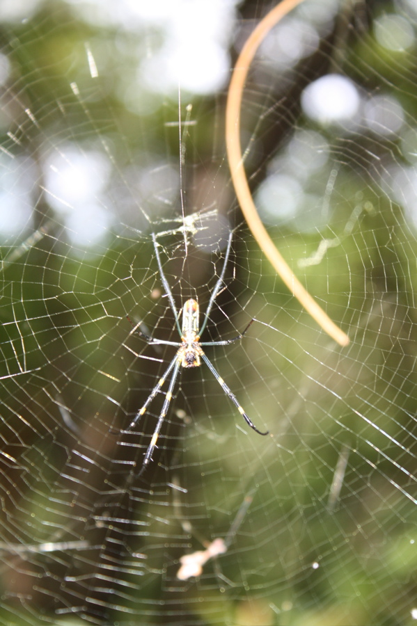 Giant Okinawan tree spider taken on island of Akajima